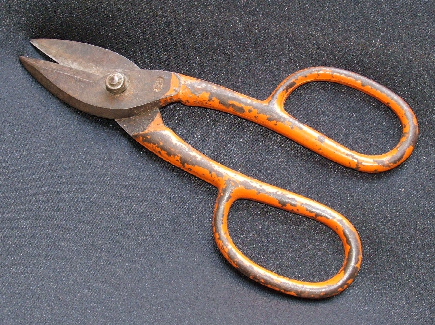 Nibbler